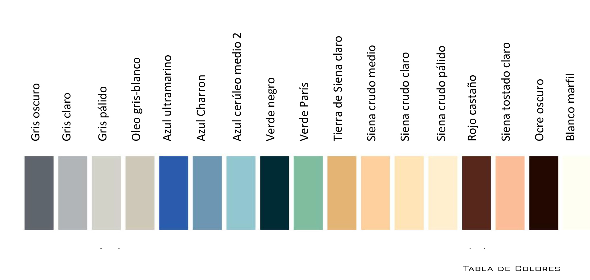 Tabla de colores